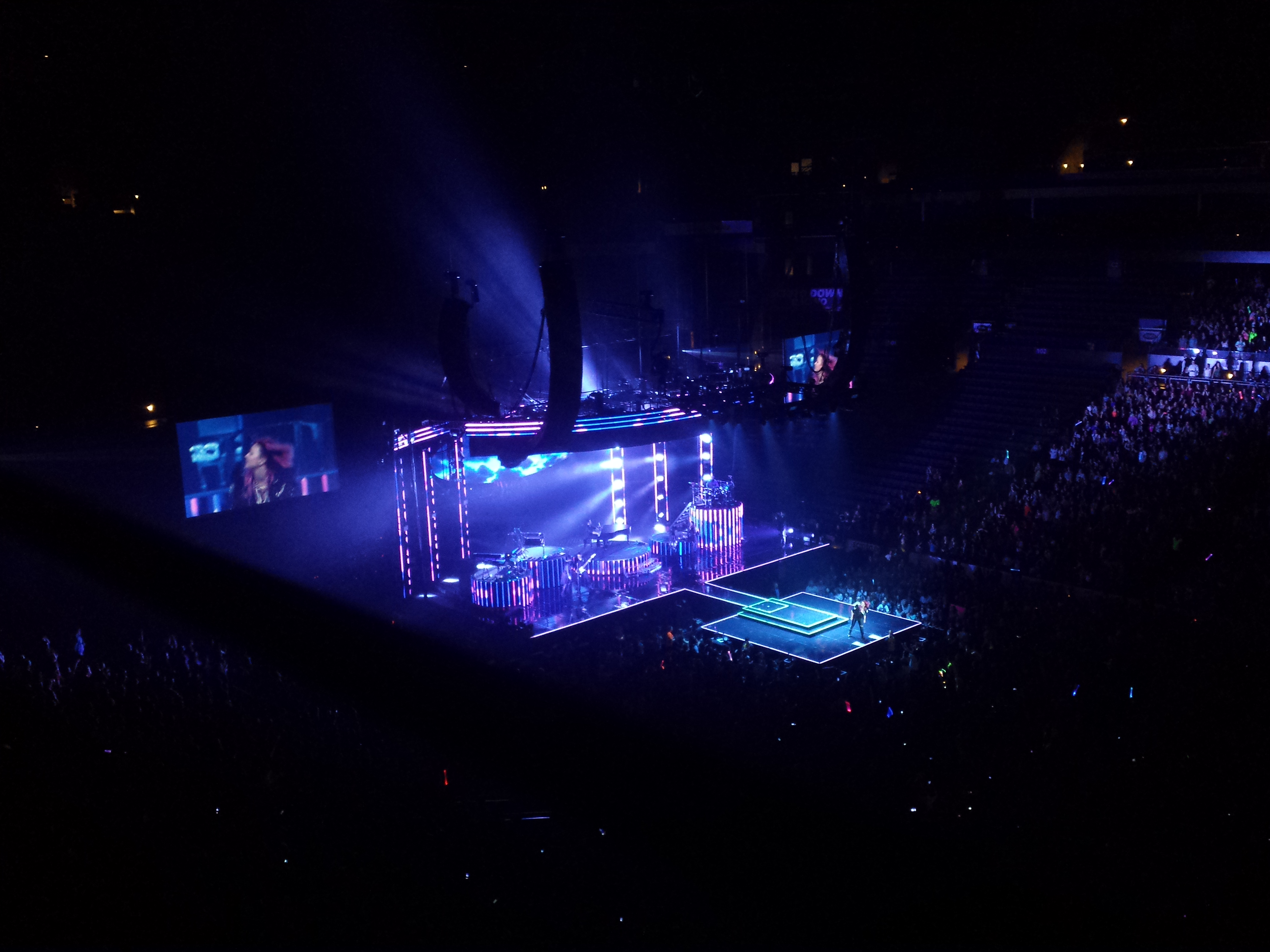 Demi Lovato performing at the Nationwide Arena in Columbus, Ohio during her Neon Lights Tour.